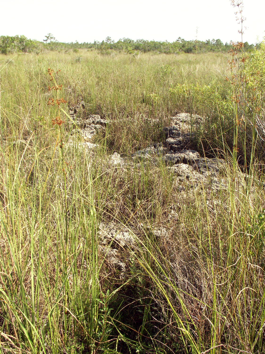 Sawgrass prairie showing uneven outcrops of limestone in the Everglades, taken along Pa-hay-o-kee Overlook in Everglades National Park.